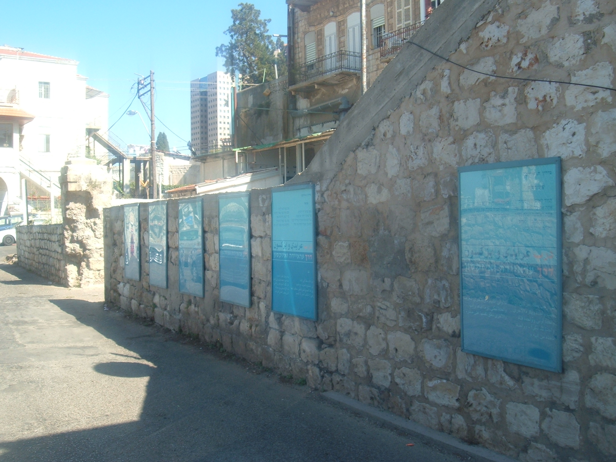 Plaques with poems of jewish poet Miron H. Isaacson and Arab poet Naim Araydi on a wall in S. Luke st. Wadi nisnas, Haifa קיר ועליו שלטים עם שיריהם של המשורר היהודי מירון ח. איזקסון והמשורר הערבי נעים עראידי ברחוב סט. לוקס בואדי ניסנאס חיפה